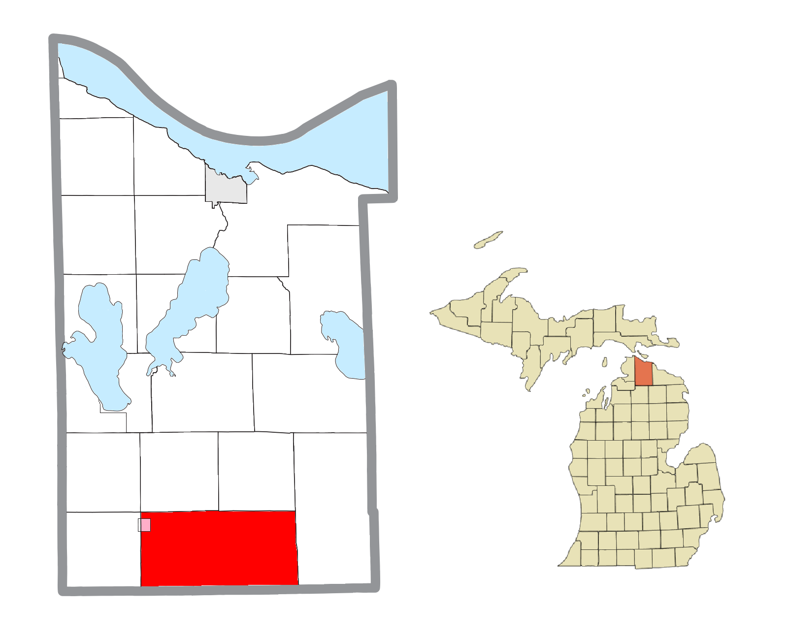 Nunda Township, MI